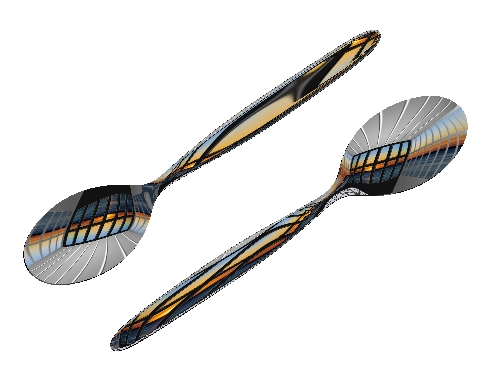 Solid/Freeform CAD model created in NX (Unigraphics)